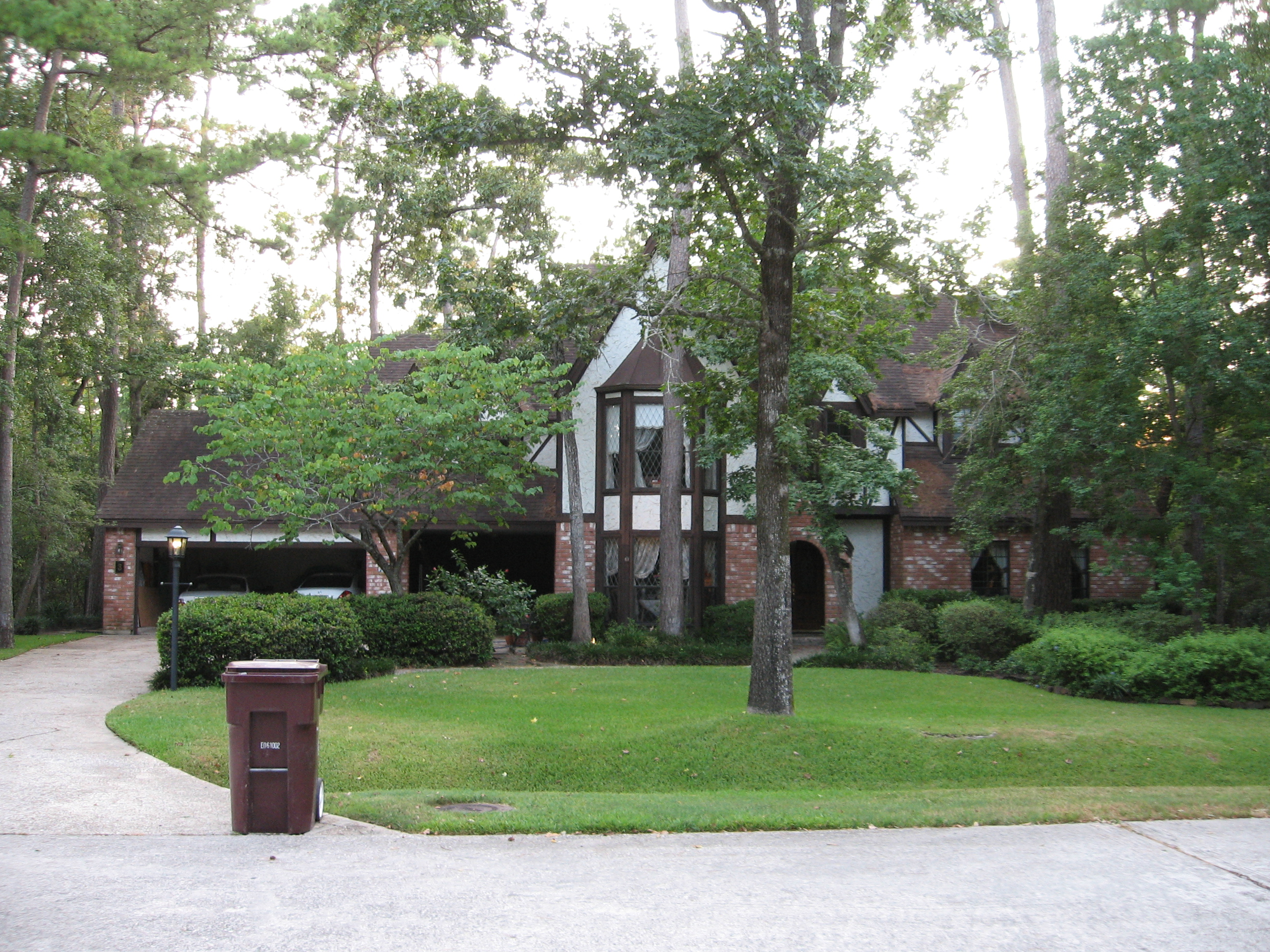 House in the Woodlands Texas